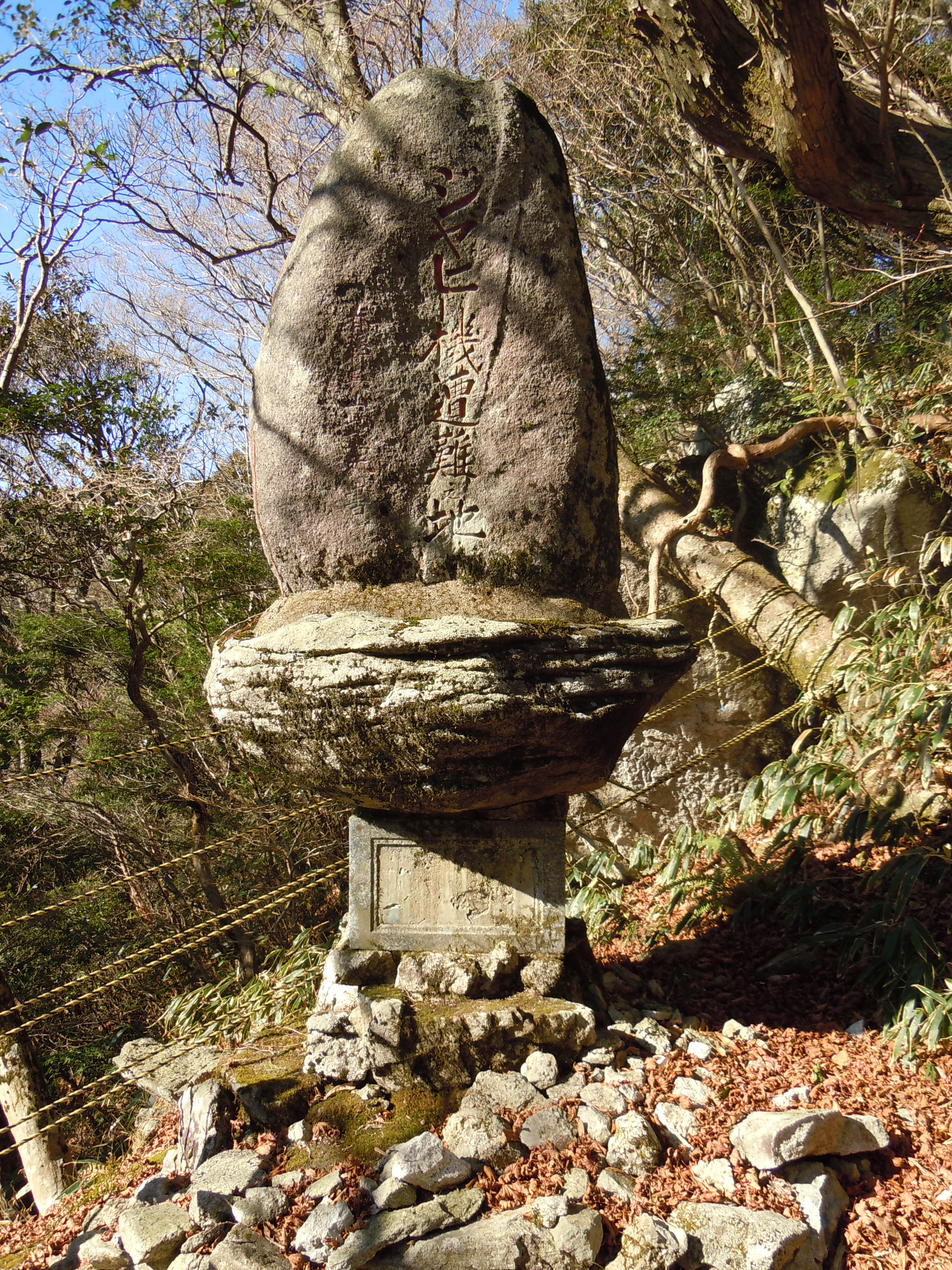 André Japy aircraft accident monument. The airplane disaster occurred on November 19, 1936. It was an adventure flight from Paris to Tokyo in 100 hours. The crash occurred in the Mt. Sefuri in Kyushu Japan.